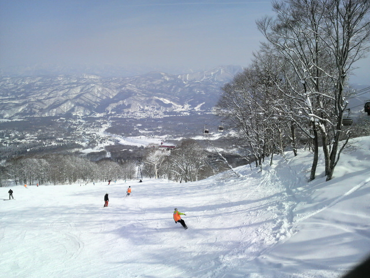 Akakura kanko Ski resoart